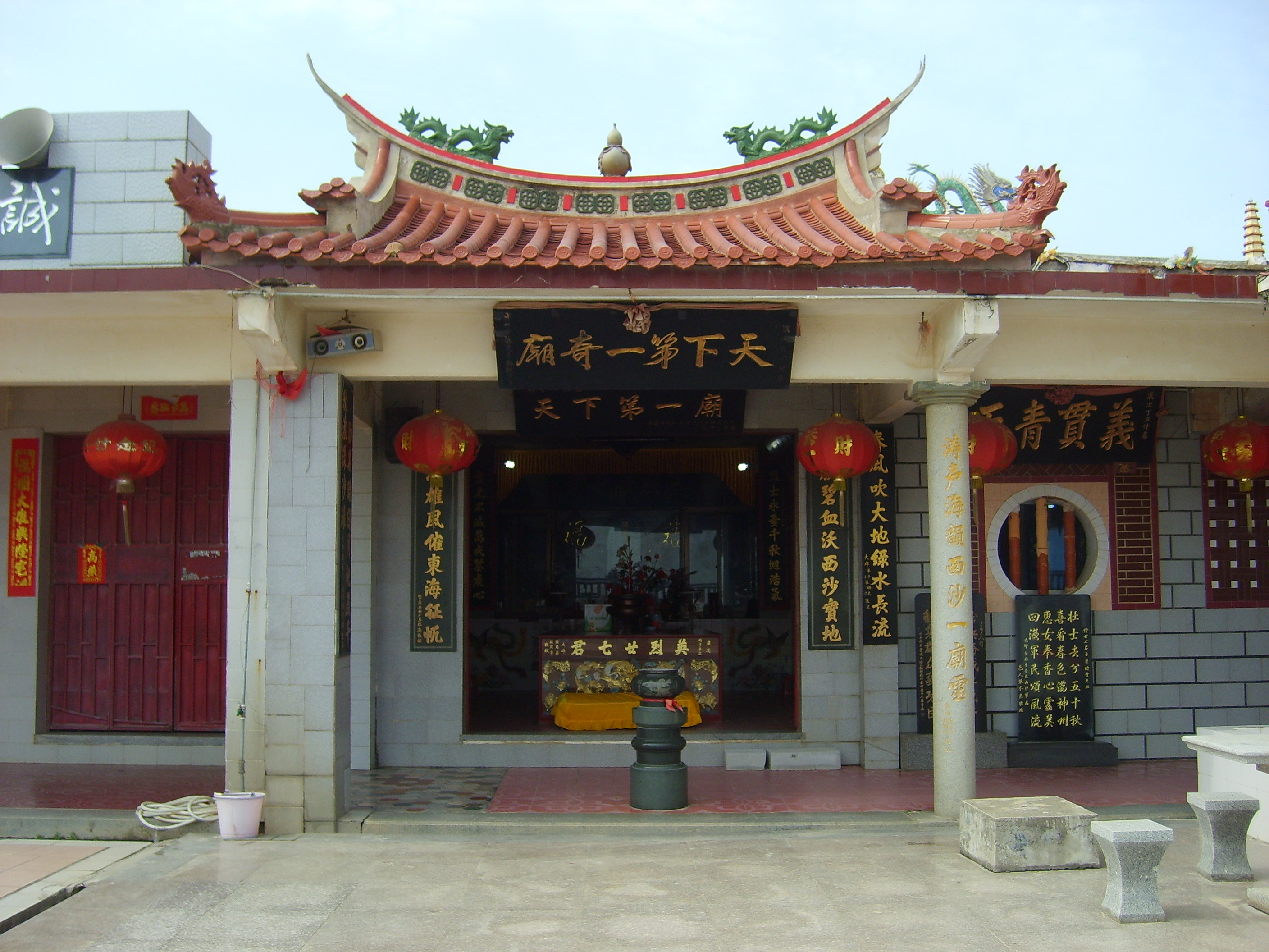 Temple of People's Liberation Army on Chongwu, Huian, Fujian, China